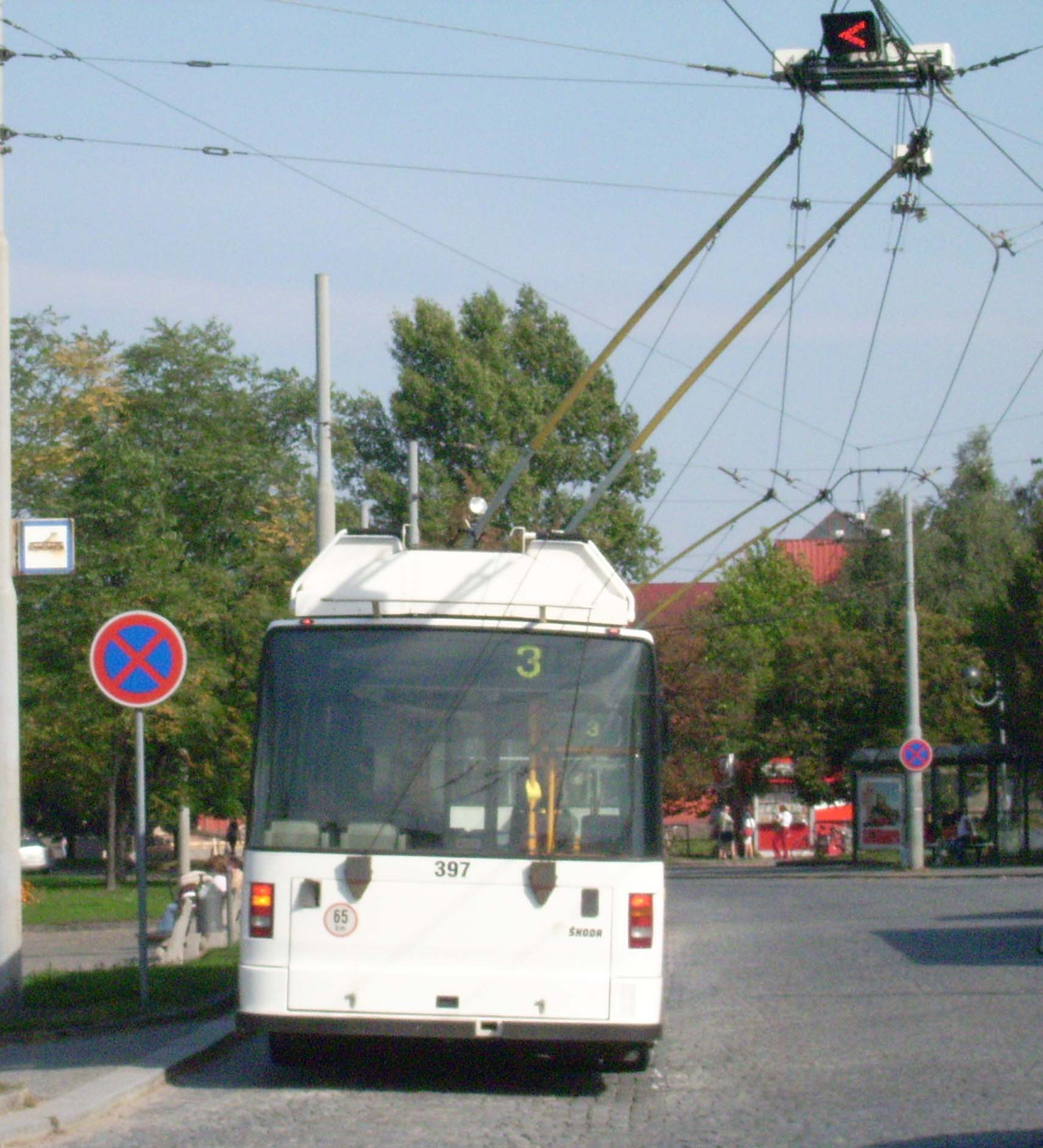 Trolleybus in Pardubice